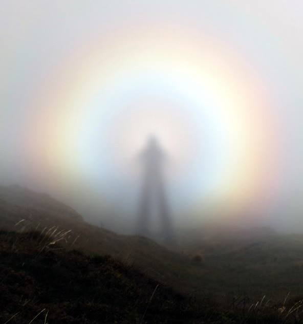 Brocken Spectre